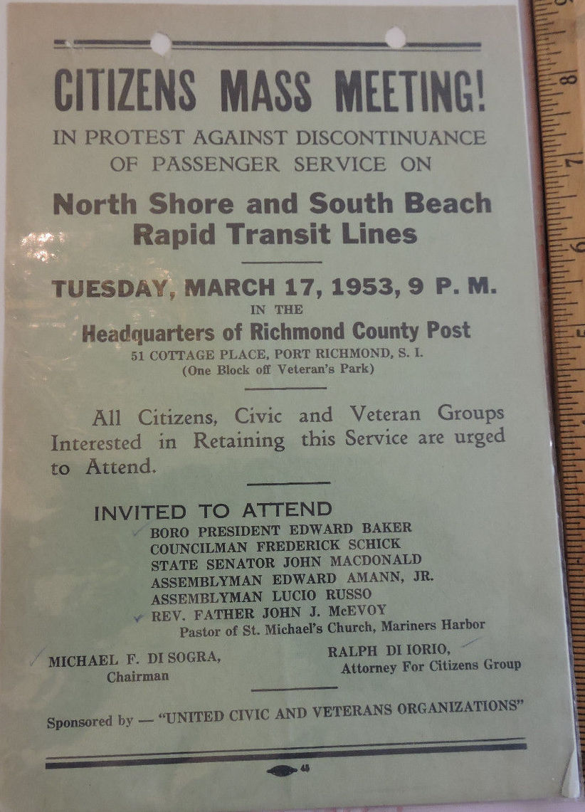 This is a poster that is attempting to get people of the local communities on Staten Island to protest against the planned discontinuation of passenger service on the North Shore Branch and South Beach Branch of Staten Island Rapid Transit.